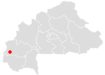 The map shows the location of the town of Orodara in Burkina Faso.